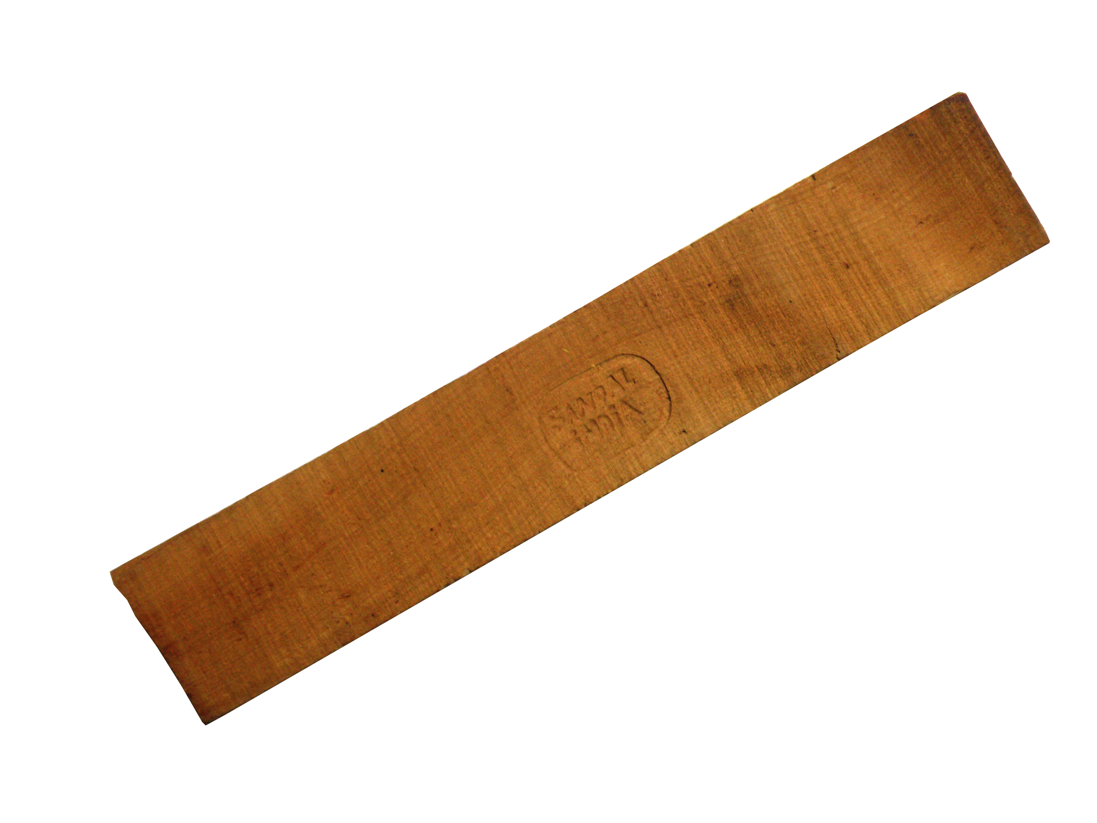 White Indian Sandal Wood